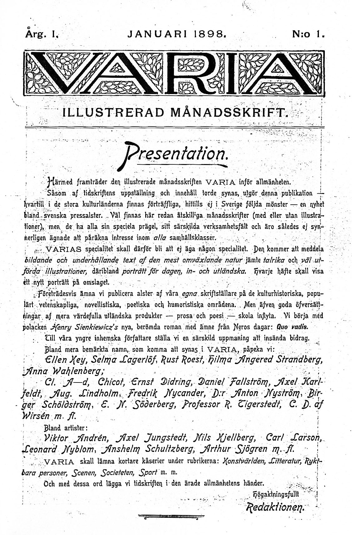 Frontpage of swedish magazine Varia - first issue january 1898.